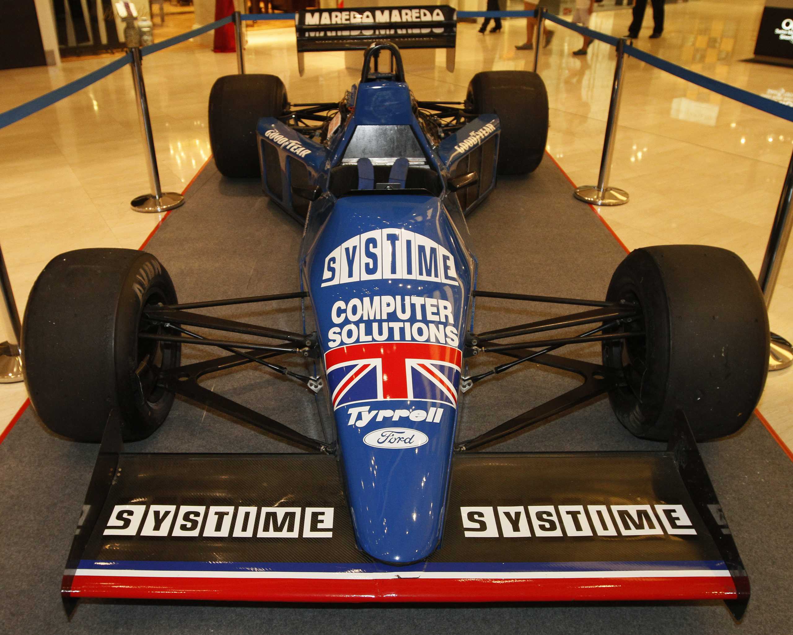 Pavilion Pit Stop 2010: Tyrrell 012/3